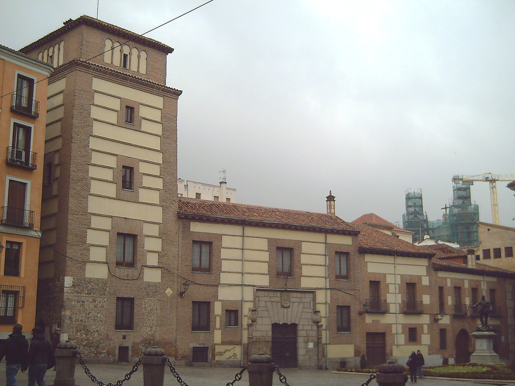 Casa de los Lujanes (house) and Torre de los Lujanes (tower), at the Plaza de la Villa (square) in Madrid (Spain). Built in the 15th century.